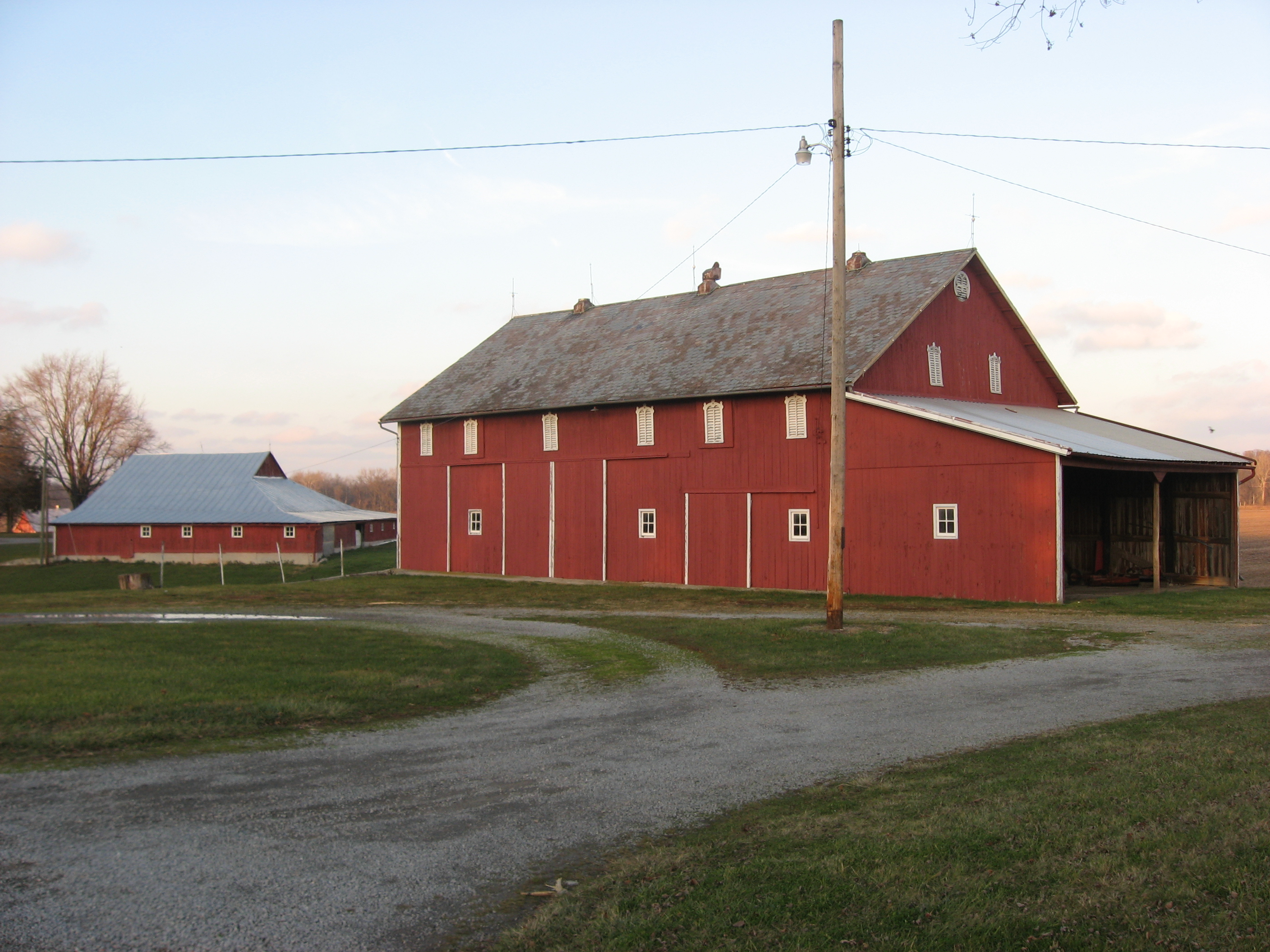 Barns at the Armstrong Farm, located at 13706 State Route 199 southeast of the city of Upper Sandusky in Crane Township, Wyandot County, Ohio, United States. The farm complex is listed on the National Register of Historic Places.